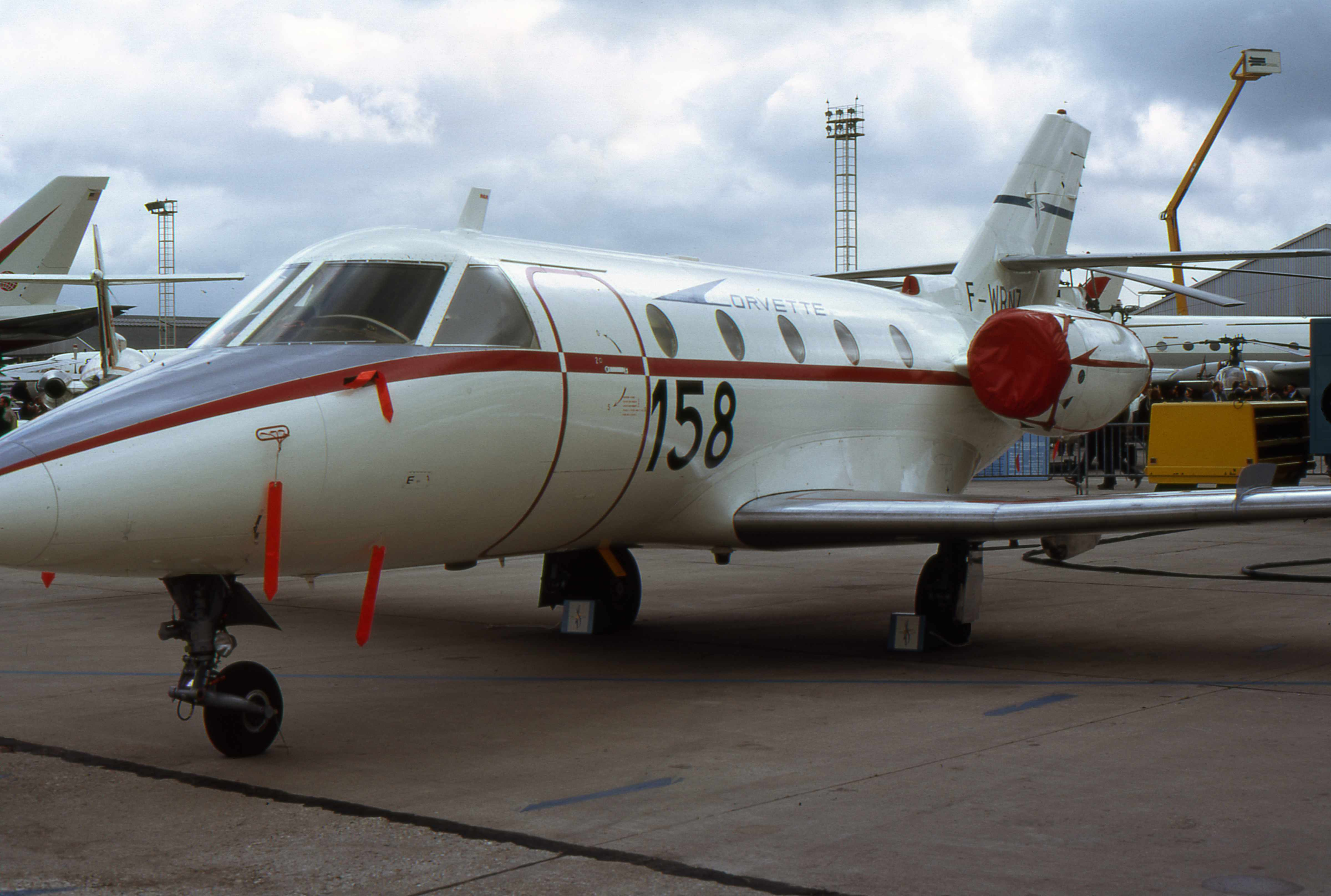 France, Paris Air Show 1973. The French business jet Aérospatiale Corvette shown at the static display.